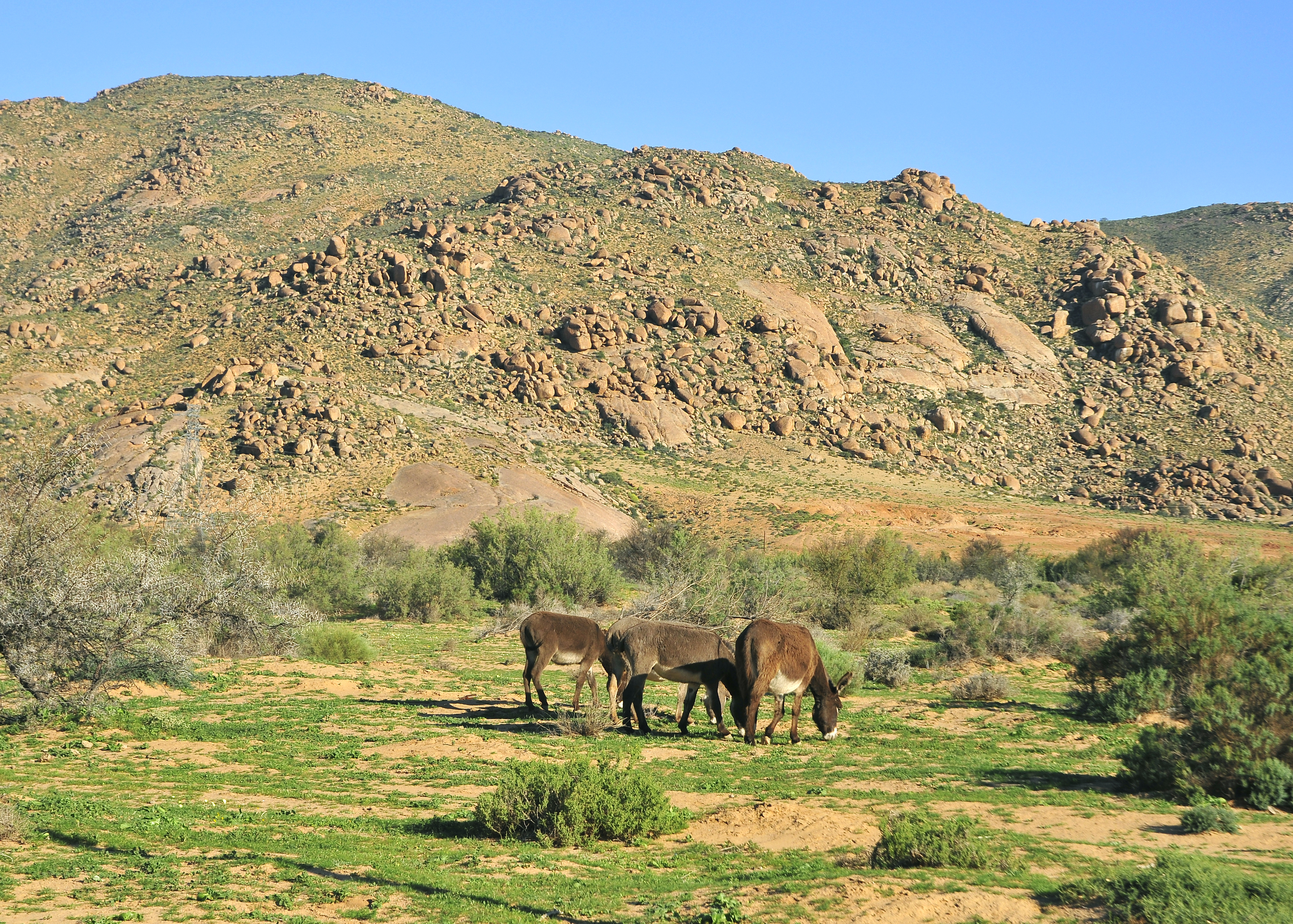 Donkeys near Bufflesrivier. Northern Cape, South Africa